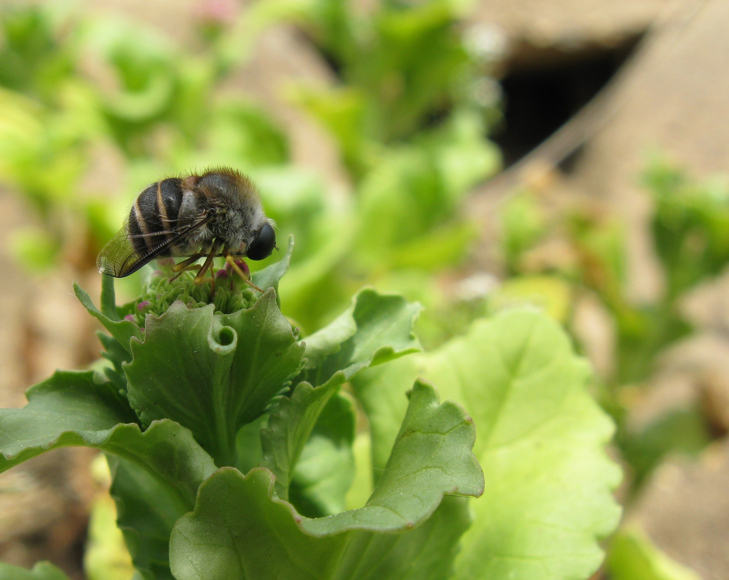 Small-headed fly, probably Psilodera fasciata. Note the proboscis held horizontally beneath the body.